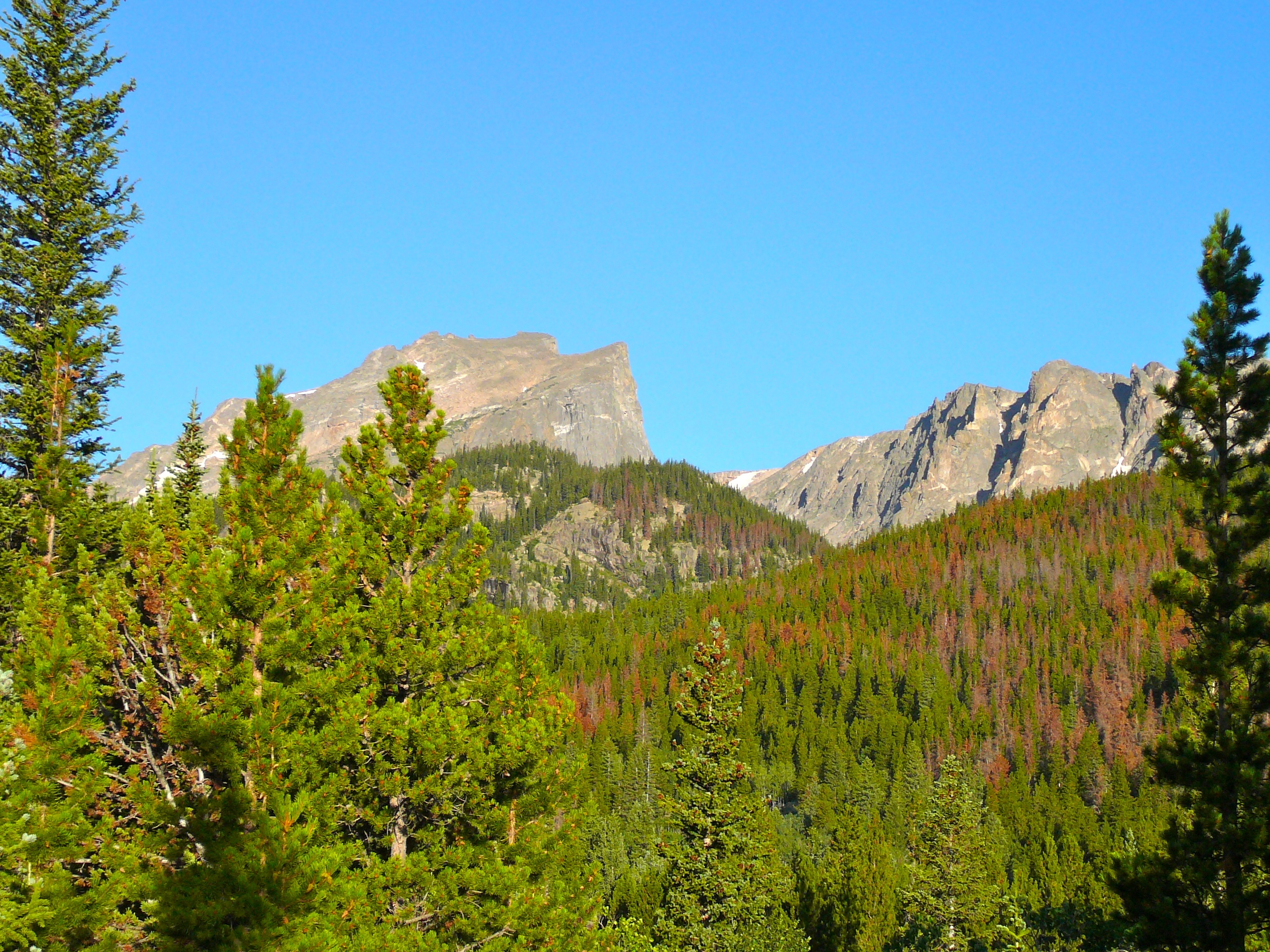 Picea engelmannii - Pinus contorta subsp. latifolia forest. Sprague Lake, Rocky Mountain National Park, Colorado.